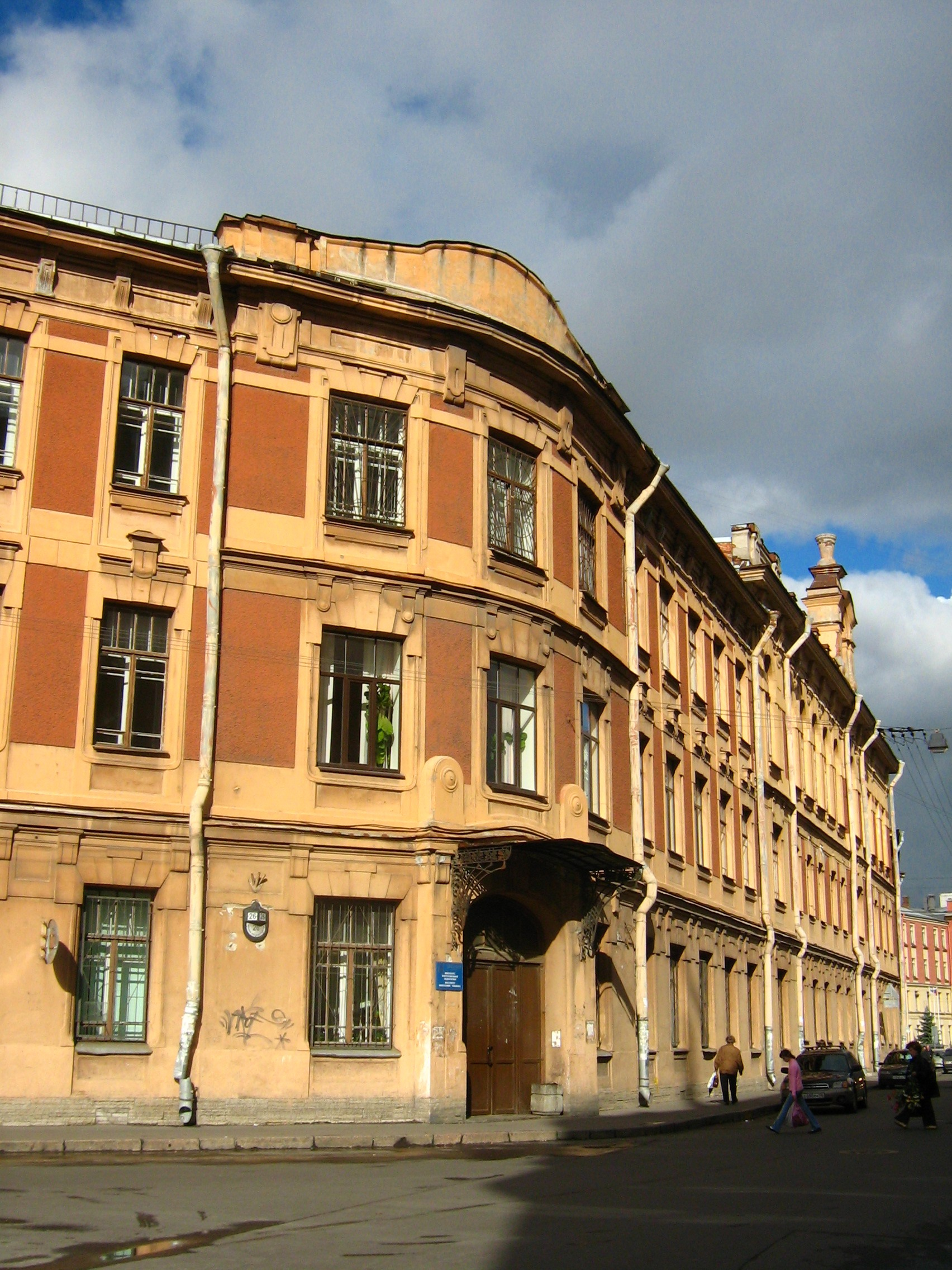 Saint Petersburg (Russia), Herzen University.A corner of Malaia_Posadskaia Street & Chapaeva Street